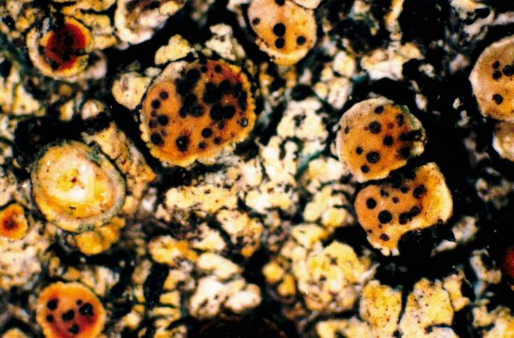 Caloplaca flavovirescens (Wulfen) Dalla Torre & Sarnth., 1902 (photograph of a herbarium specimen taken through a dissecting microscope (x40) showing a sulphur-yellow thallus and apothecia with orange disks and yellow margins) Growing on basalt in an open area on the shore of Lake Superior, at Pancake Bay, W side of Highway 17, 12.5 miles N of the entrance to Pancake Bay Provincial Park, Ontario, Canada; collected and identified by Richard E. Riefner (No. 81-523, 23 Jul 1981); specimen is now in the Lichen Herbarium of the New York Botanical Garden.